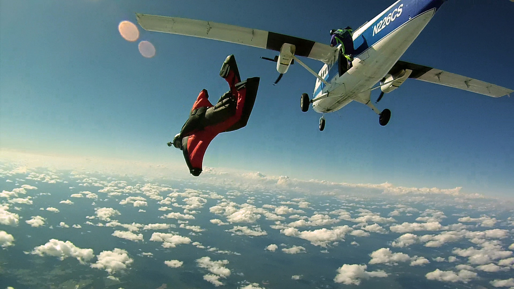 Red Wingsuit Exit.